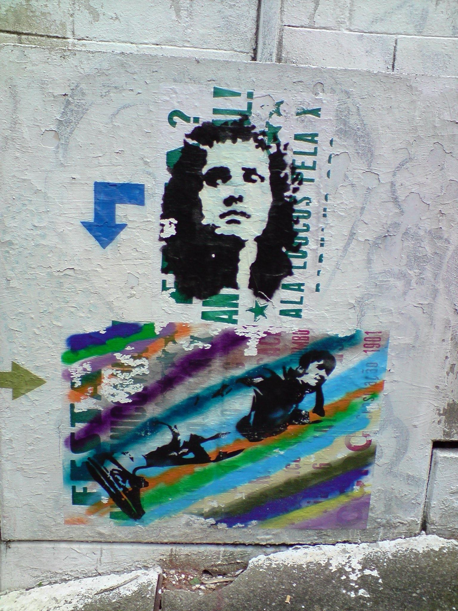 Stencil graffiti of Brazilian singer Roberto Carlos in São Paulo. It is a mirorred reproduction of his 1972 self-titled album's cover.